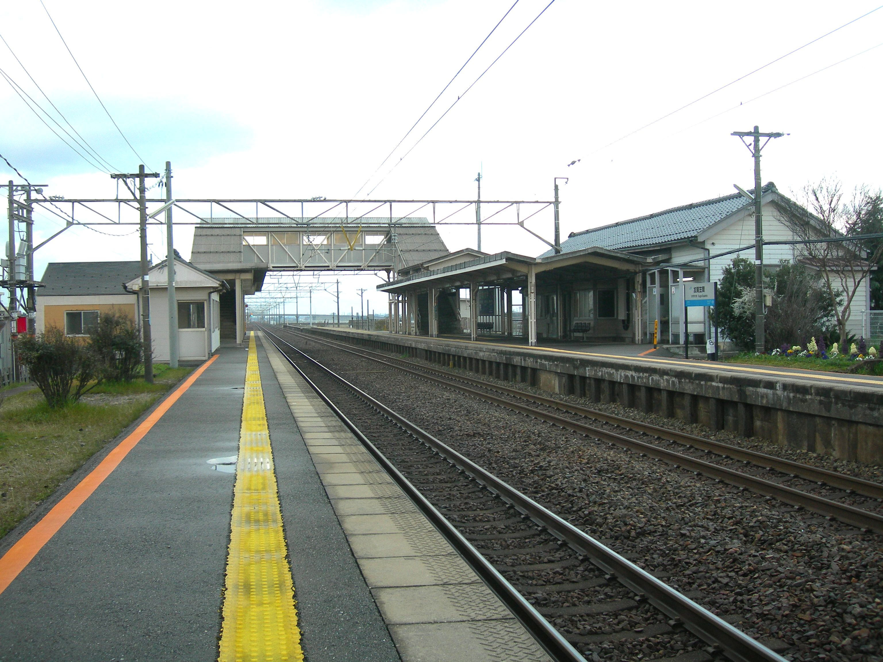 Kaga-Kasama Station platform